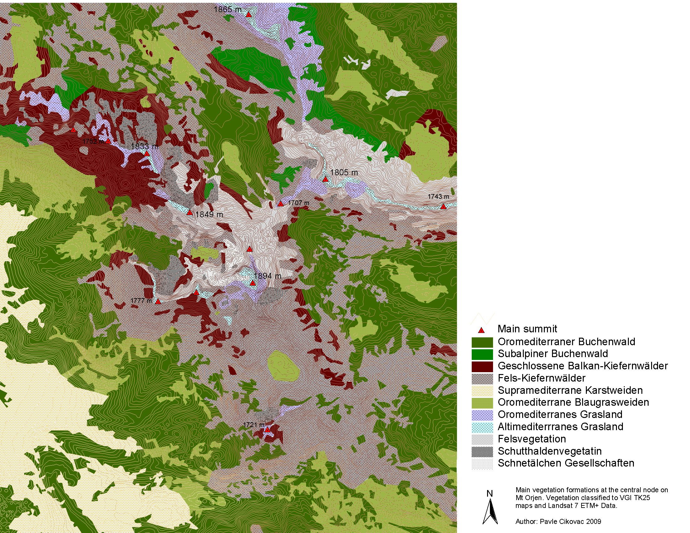 Satellite based vegetation classification with isolines from tk25 maps Resolution of the supervised classification lies between 5 and 15 meters